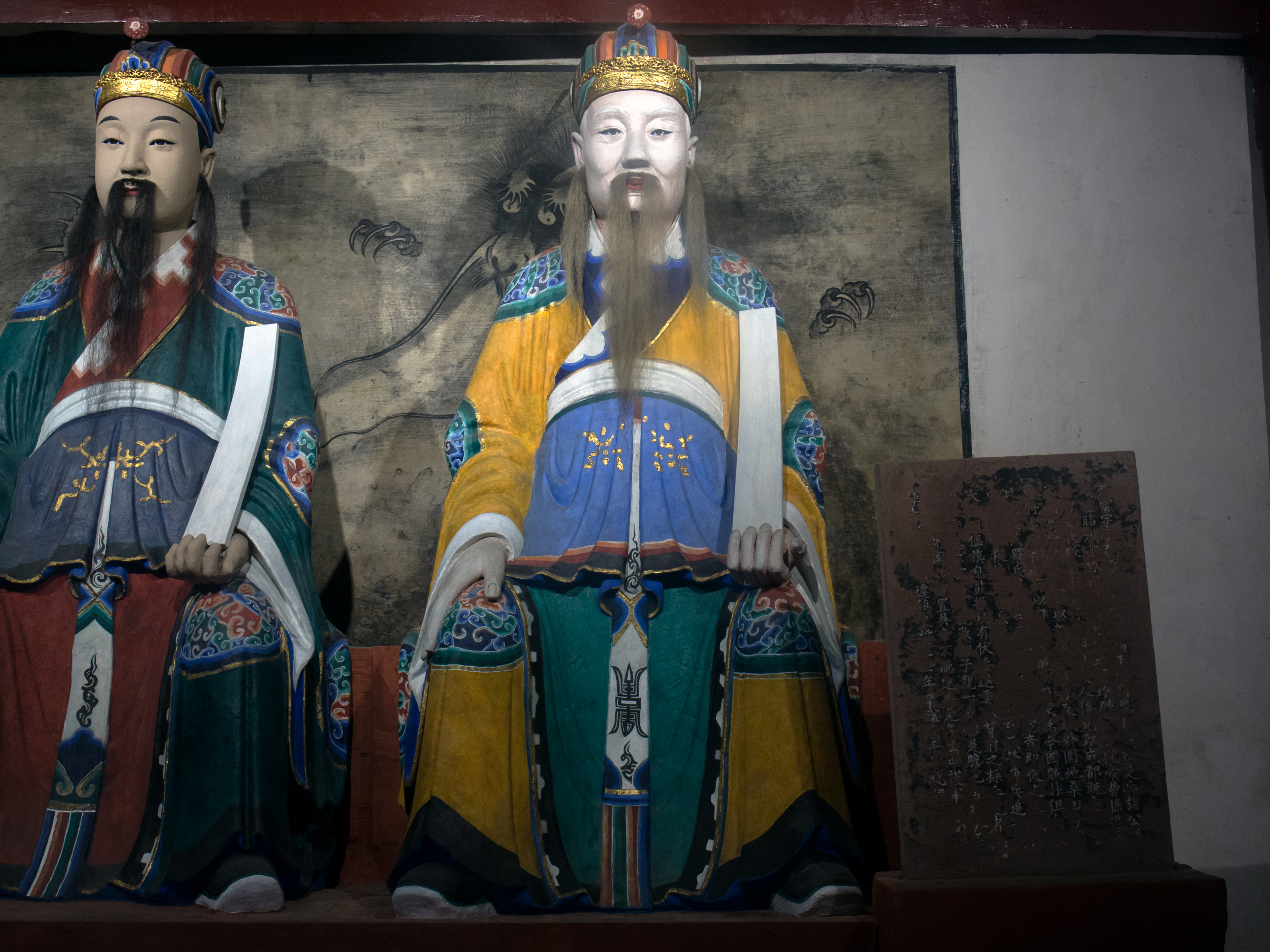 Zhao Yun (趙雲)